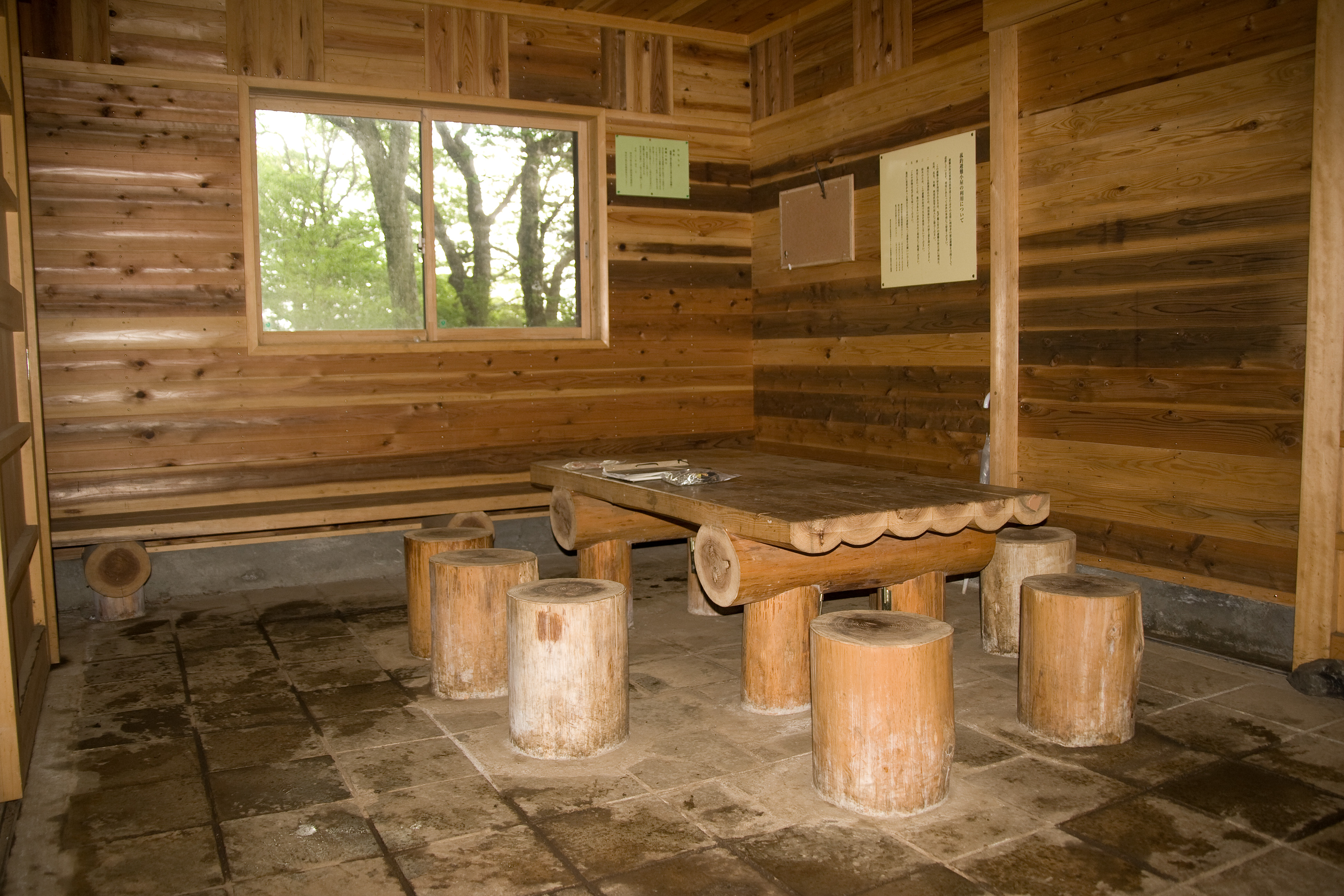 Interior of Komotsurushi hinangoya ("Komotsurushi shelter hut") in the Tanzawa Mountains, Japan